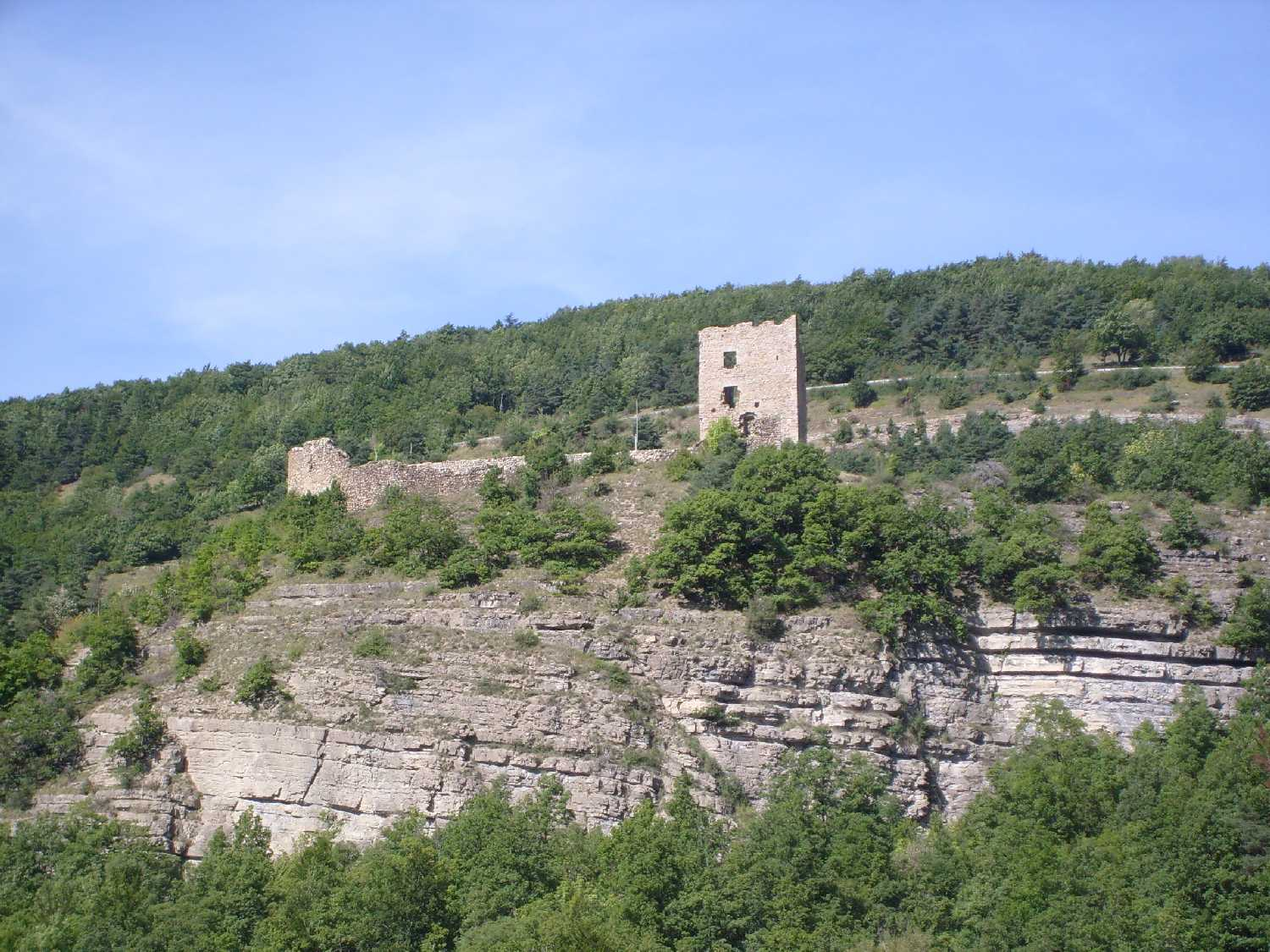 Saint-Firmin fortified castle( Hautes-Alpes, France)